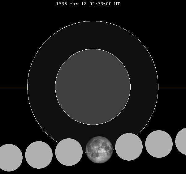 =lunar eclipse chart of moon's path through the earth's shadow. thumb